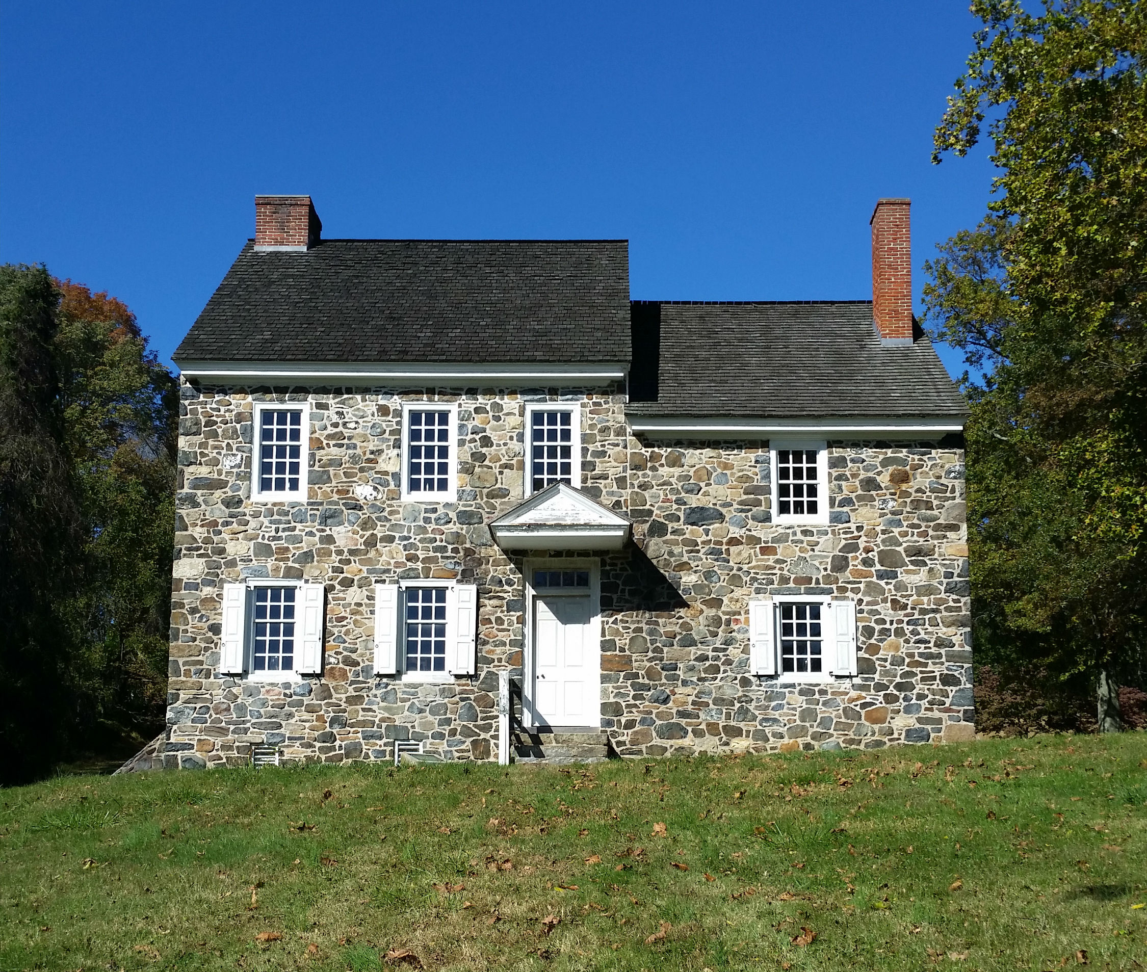 Washington's HQ during the Battle of Brandywine.